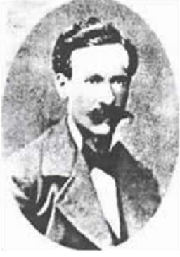 Dimitar Popgeorgiev.